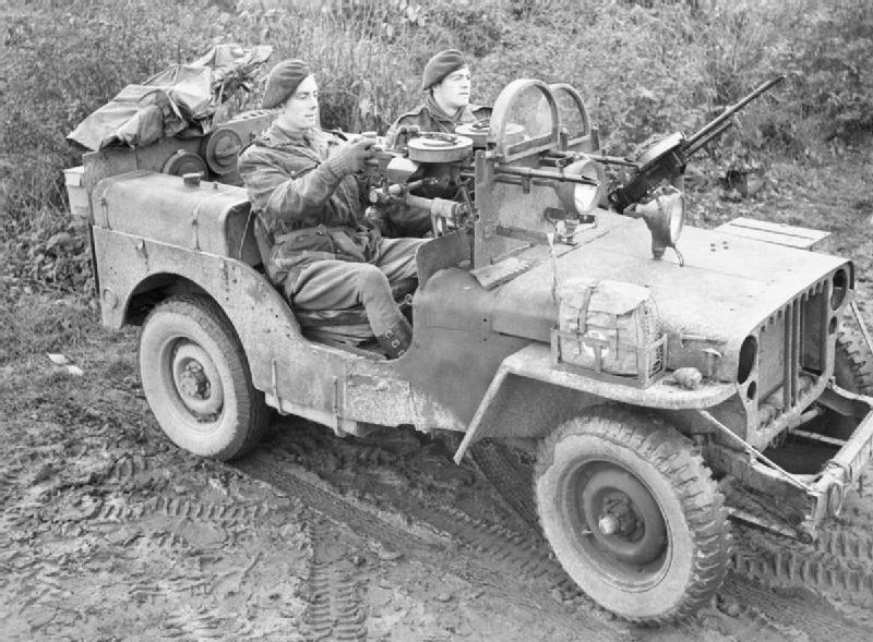 Operation Clipper. A jeep manned by Sergeant A Schofield and Trooper O Jeavons of 1 SAS near Geilenkirchen in Germany. The jeep is armed with three Vickers 'K' guns, and fitted with armoured glass shields in place of a windscreen. The SAS were involved at this time in clearing snipers in the 43rd Wessex Division area.